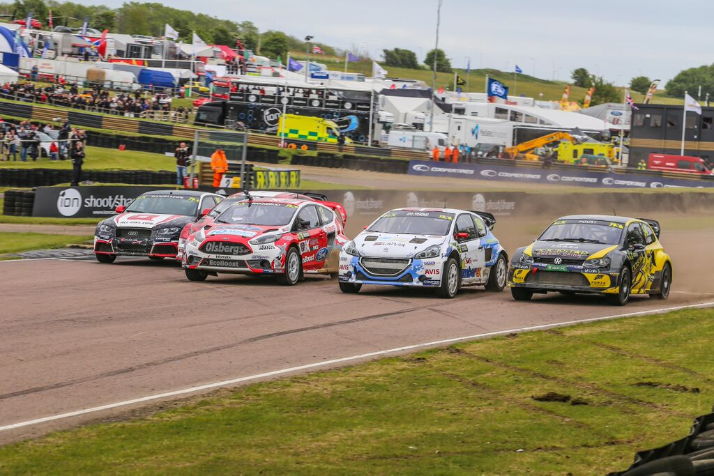 Rallycross Supercars at Lydden Hill Circuit, 2015 FIA World Rallycross Championship Round 4. From left to right: Alx Danielsson (Audi), Reinis Nitišs (Ford), Andreas Bakkerud (Ford), Jānis Baumanis (Peugeot) and Tanner Foust (Volkswagen).